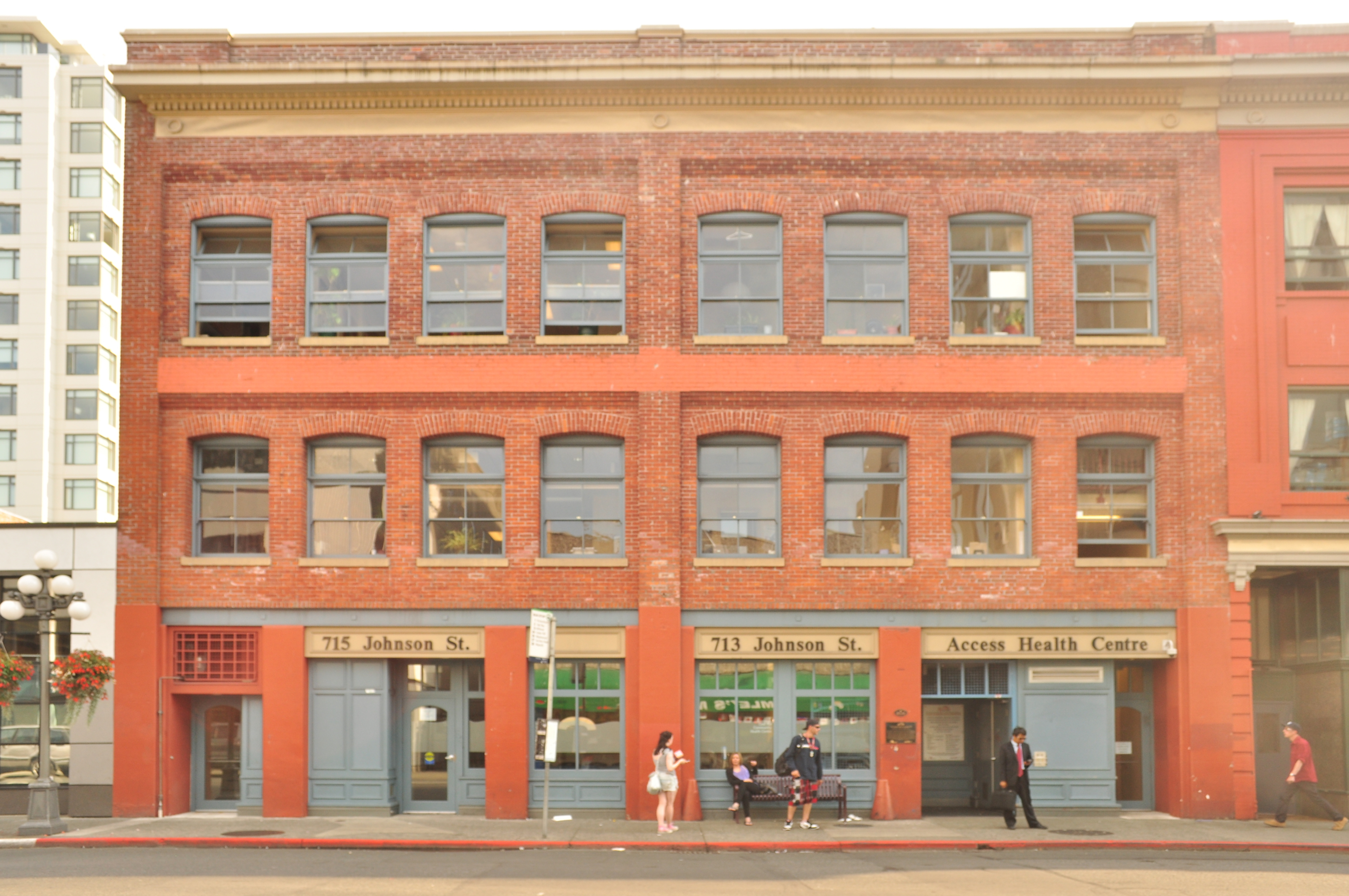 Mable Carriage Works, 713 Johnson Street, Victoria, British Columbia.